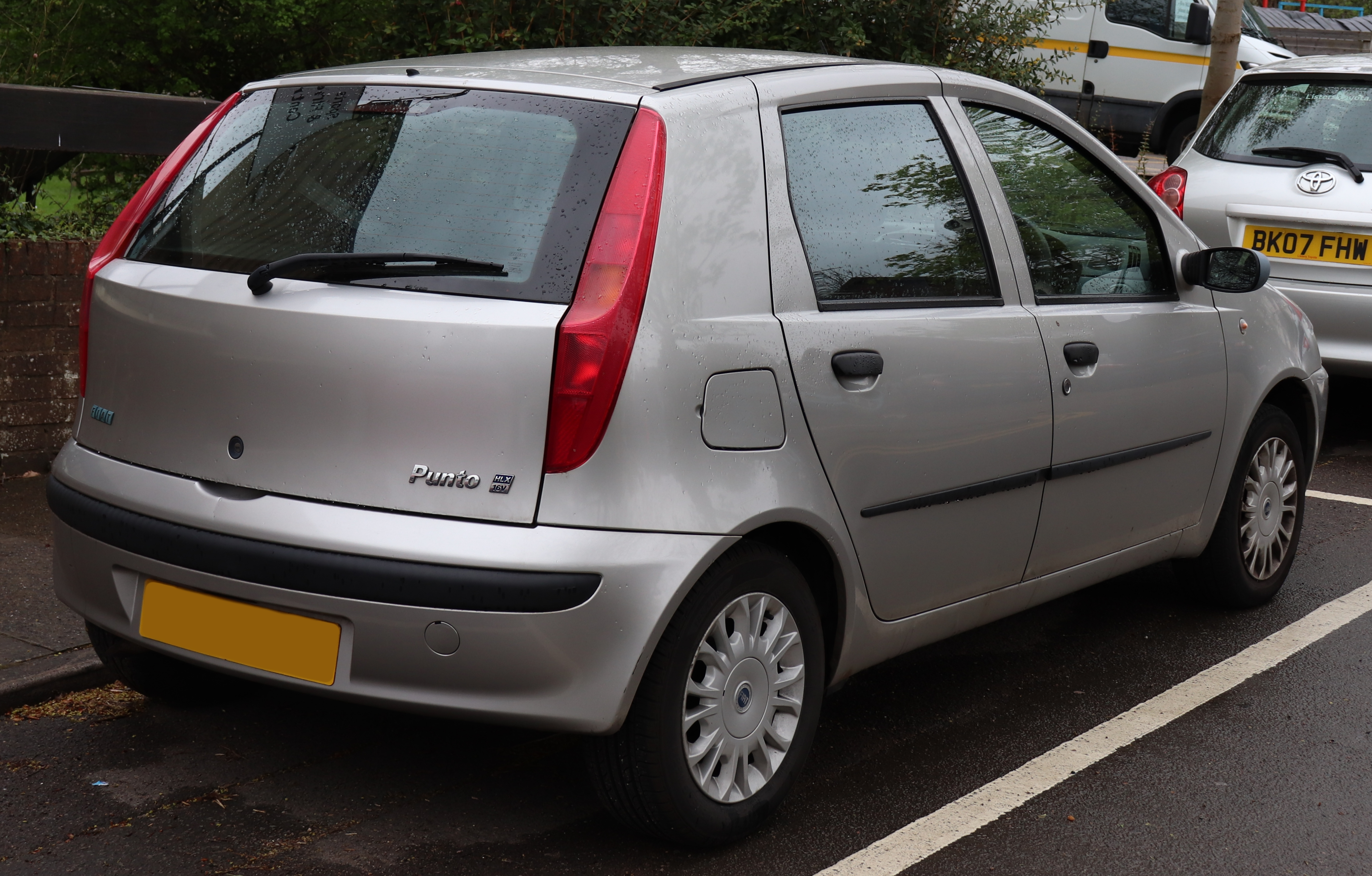 2001 Fiat Punto HLX 16V 1.2 Rear Taken in Leamington Spa